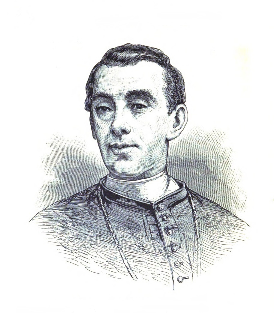 Louis Gaston Adrien de Ségur